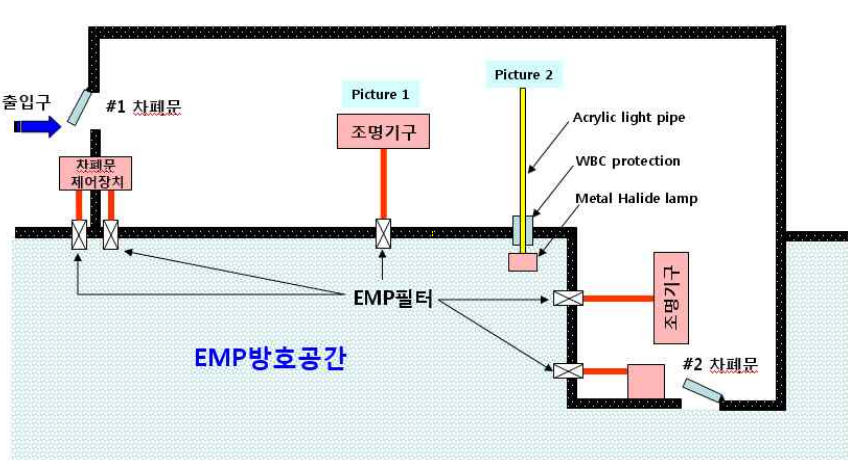 termpapaper10